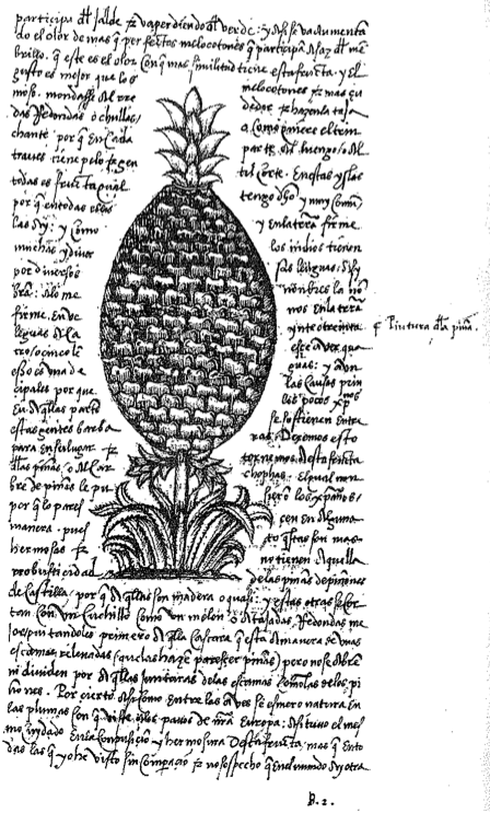 This text and illustration formed the basis of Oviedo's 1526 Toledo print text. It is held in the Royal Library, Madrid.